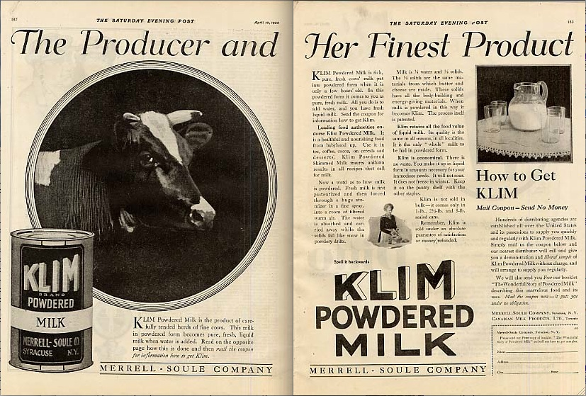 Copy of a KLIM advertisement from The Saturday Evening Post